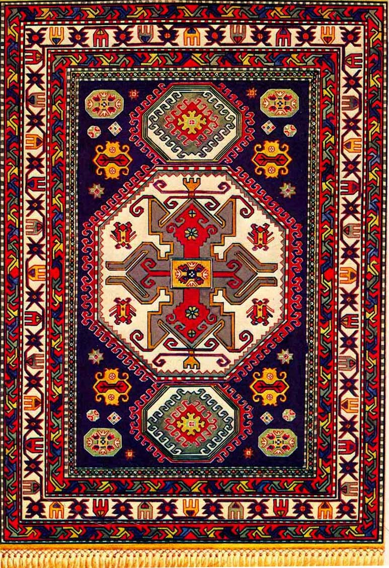 Borchali rug, Kazakh schaool, XIX c.